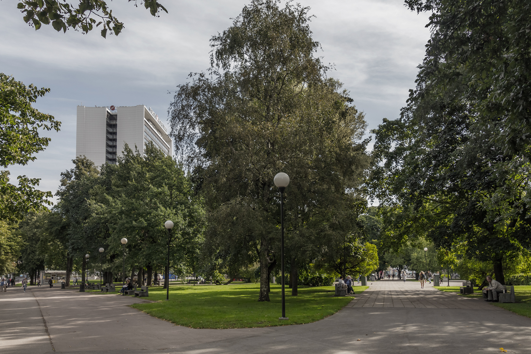 A.H. Tammsaare Park in Tallinn, August 2012